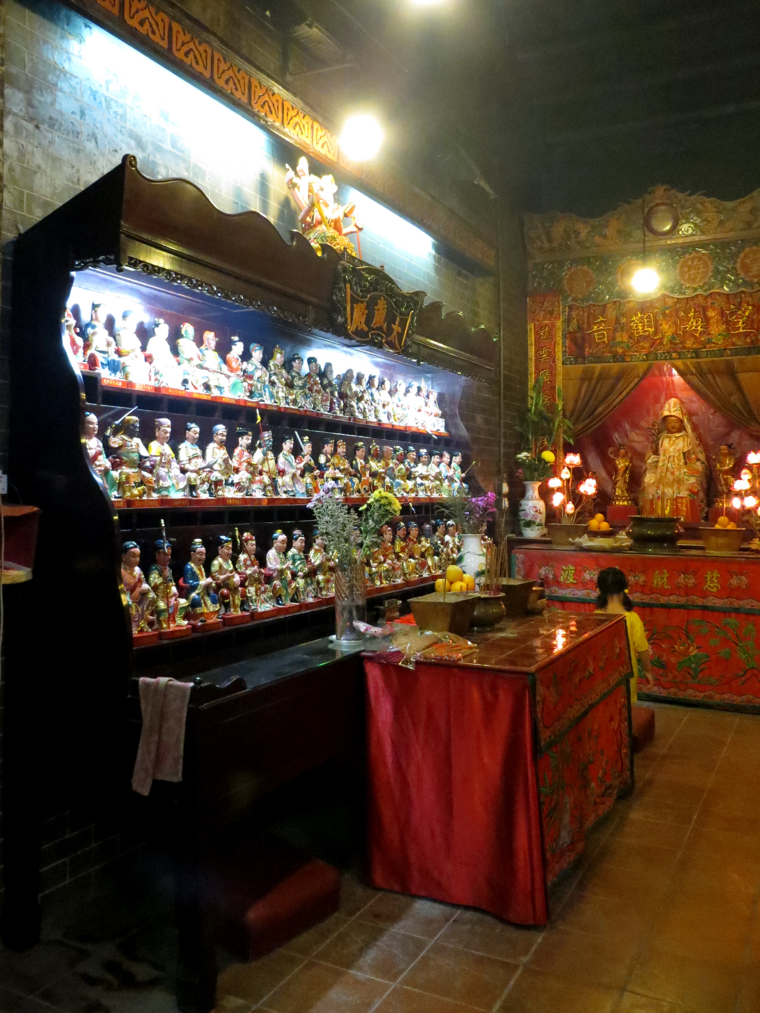 Tai Sui Shrine inside the Tin Hau Temple, Sham Shui Po, Kowloon, Hong Kong.